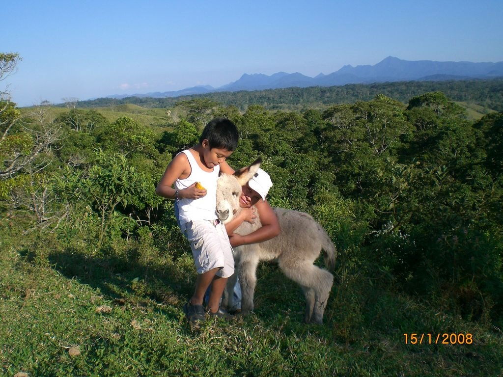 Uxpanapa Veracruz municipio